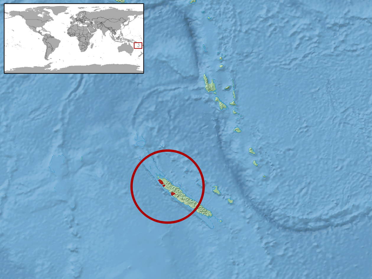 geographic distribution of Caledoniscincus auratus